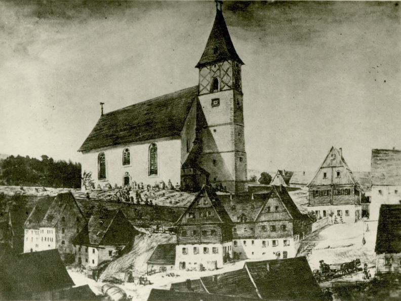 Most Holly Trinity Church in Aš, Czech Republic in 17th century. Autor of Watercolour: Traugott Alberti (1824 - 1914), pastor.